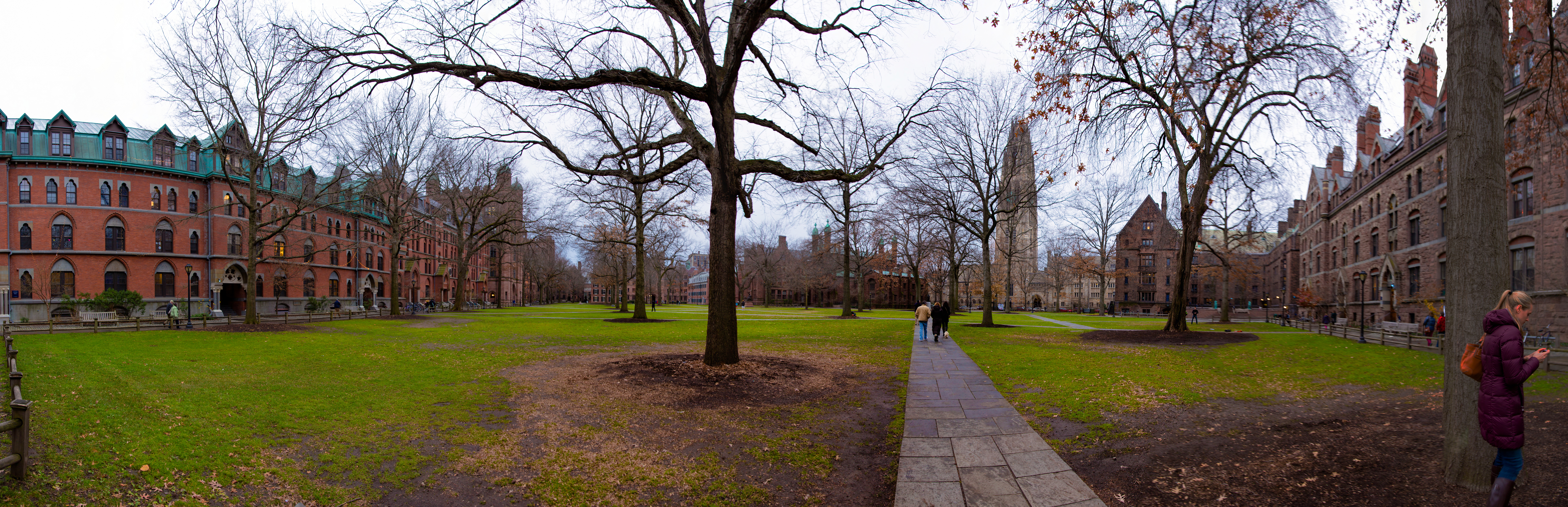 Yale Old Campus Courtyard, Yale University, New Haven, CT, USA - Dec 2012